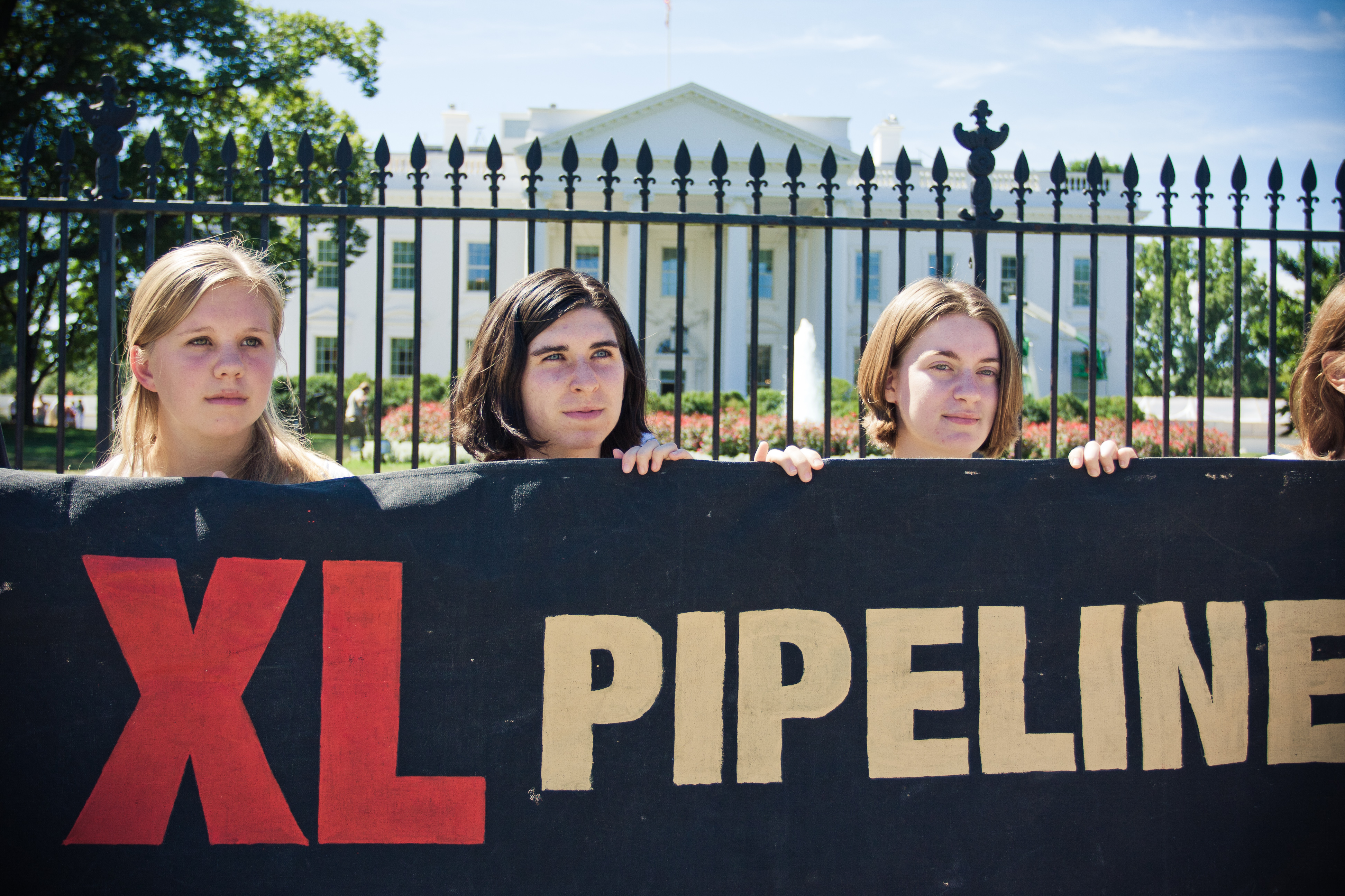 Keystone XL demonstration, White House,8-23-2011